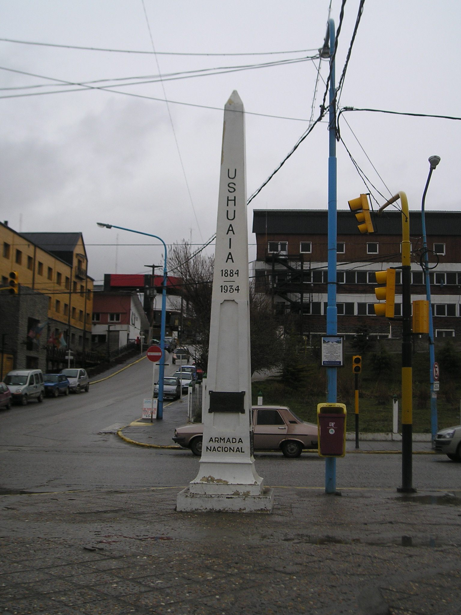 Ushuaia, Argentina - a column at the place where on October 12 1884 admiral Augosto Laserre raised an Argentinian flag and thus symbolically claimed Ushuaia to Argentina.